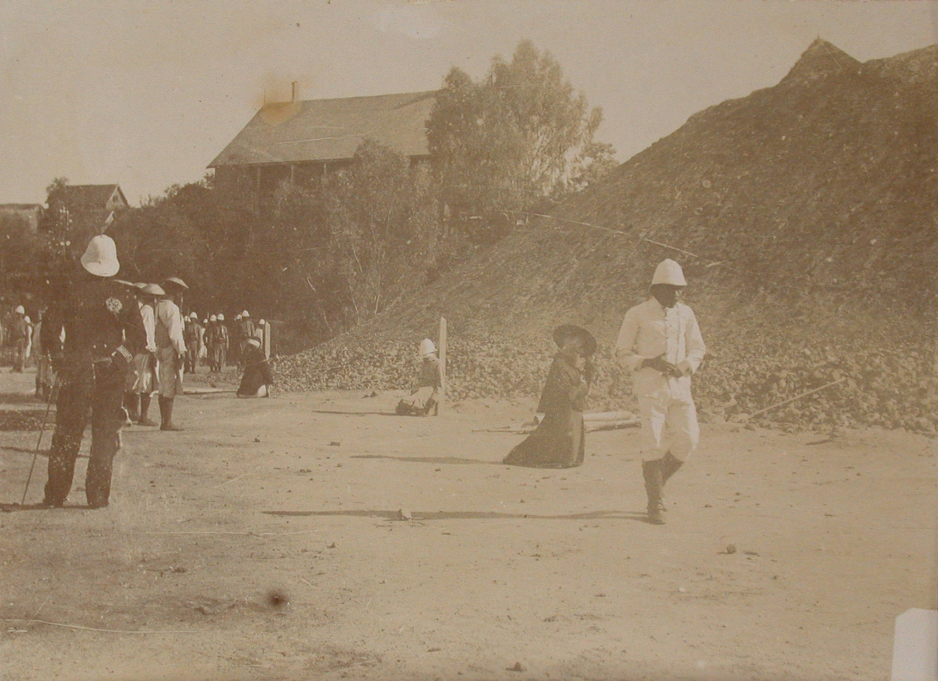 Minister of the Interior Rainandriampandry and Prince Ratsimamanga (the Queen's uncle) were executed on October 15, 1896. The execution was just accomplished on this picture. There are soldiers present during the execution. See also See also A02-112 to 115 and A06-450.